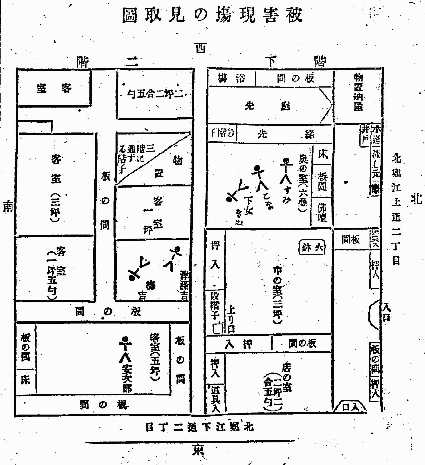 murder map